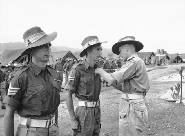 Final parade of the Australian 2/3rd Machine Gun Battalion at Wewak Point, New Guinea. Here the commanding officer, LTCOL Roy Gordon is presenting medals to some of the personnel. The battalion returned to Australia shortly after this and was disbanded in January 1946